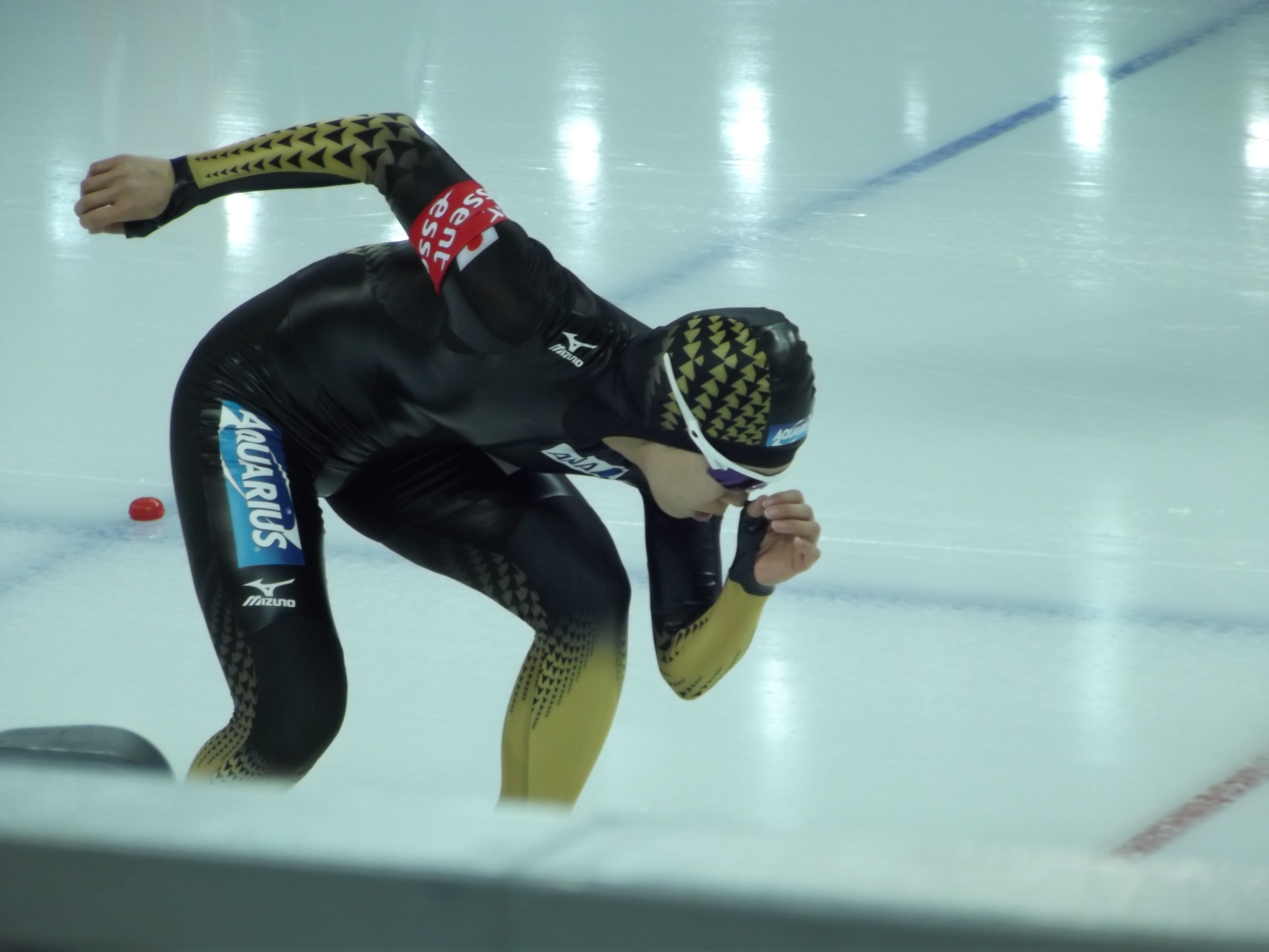 2013 World Single Distance Speed Skating Championships